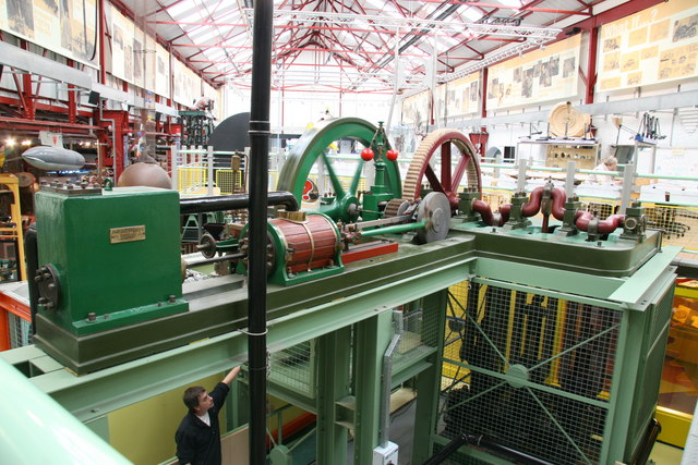 Steam engine and pumps, Enginuity The Ironbridge Gorge Museum Trust's hands-on science centre includes this nicely re-erected horizontal single cylinder steam engine driving three throw pumps. It came from the Appleton Pumping Station on the Sandringham Estate and was built by Pratchitt Bros in Carlisle.